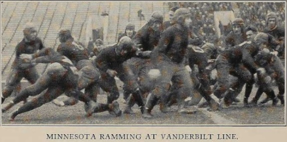 Photo from Vandy-Minnesota game of 1924.